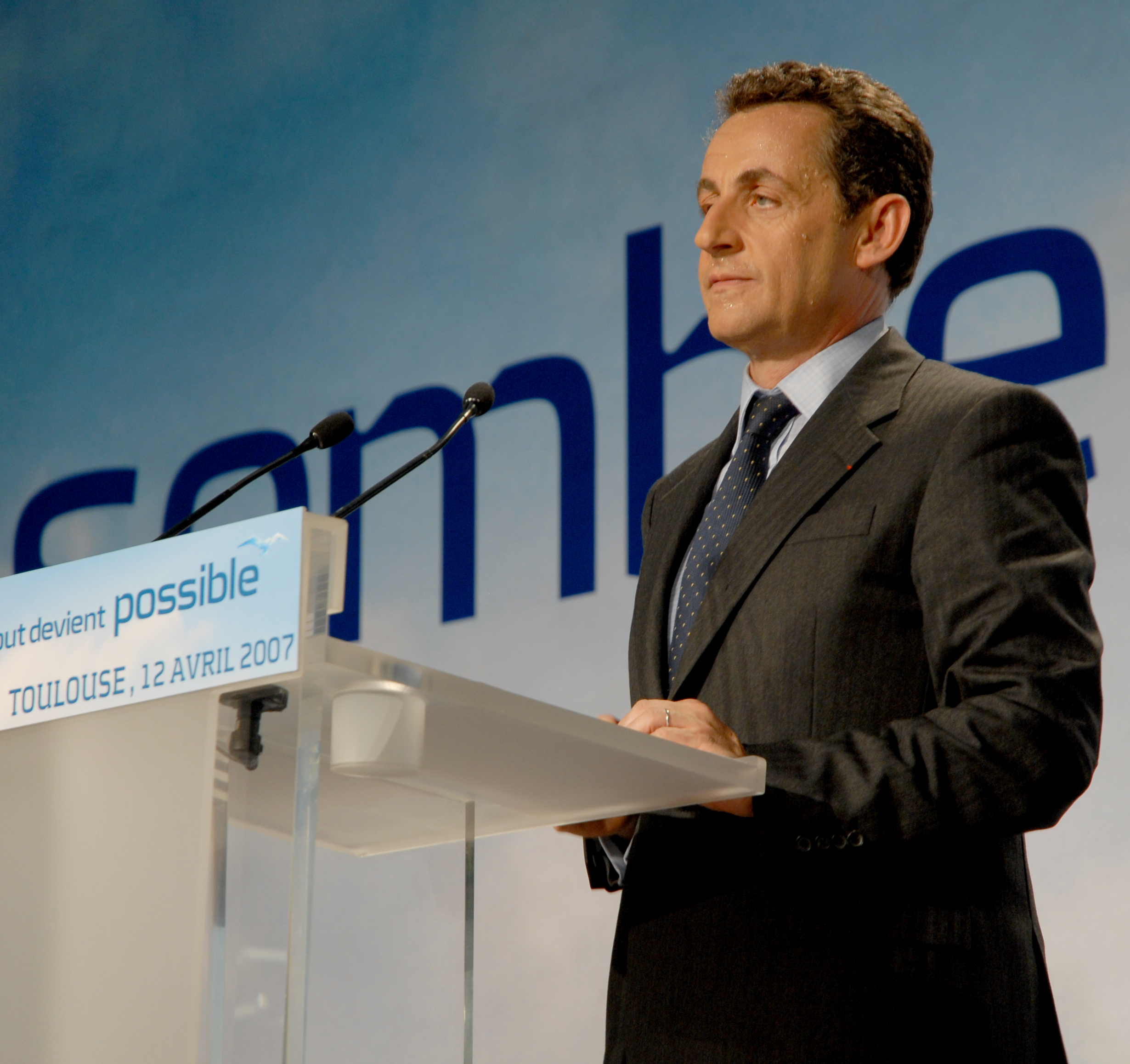 Nicolas Sarkozy during his meeting in Toulouse on April, 12th 2007 for the 2007 presidential election.